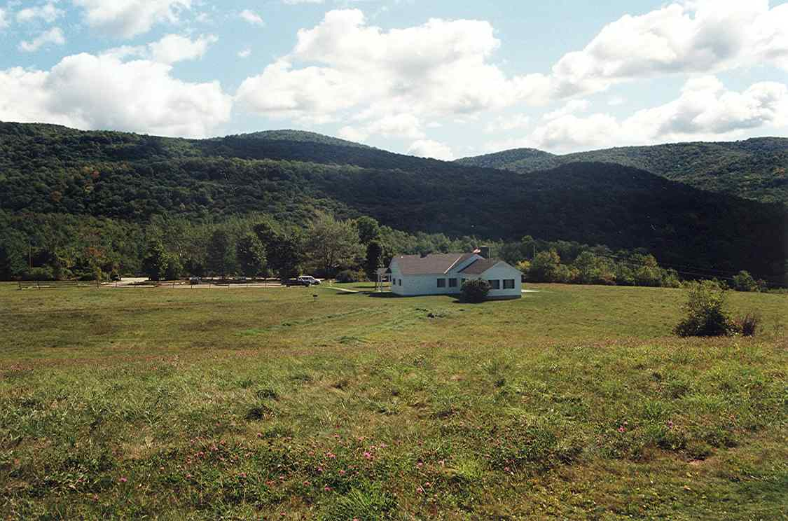 Hubbardton Vt. War of Independence Battlefield